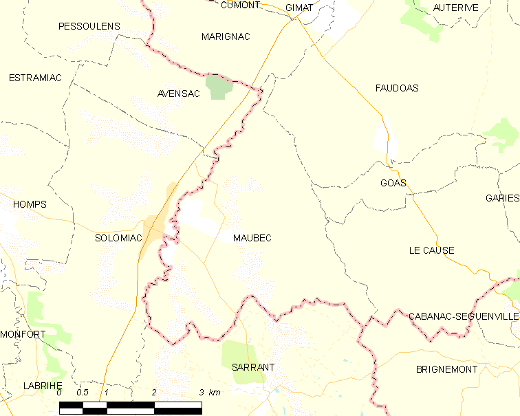 Map of French municipality Maubec